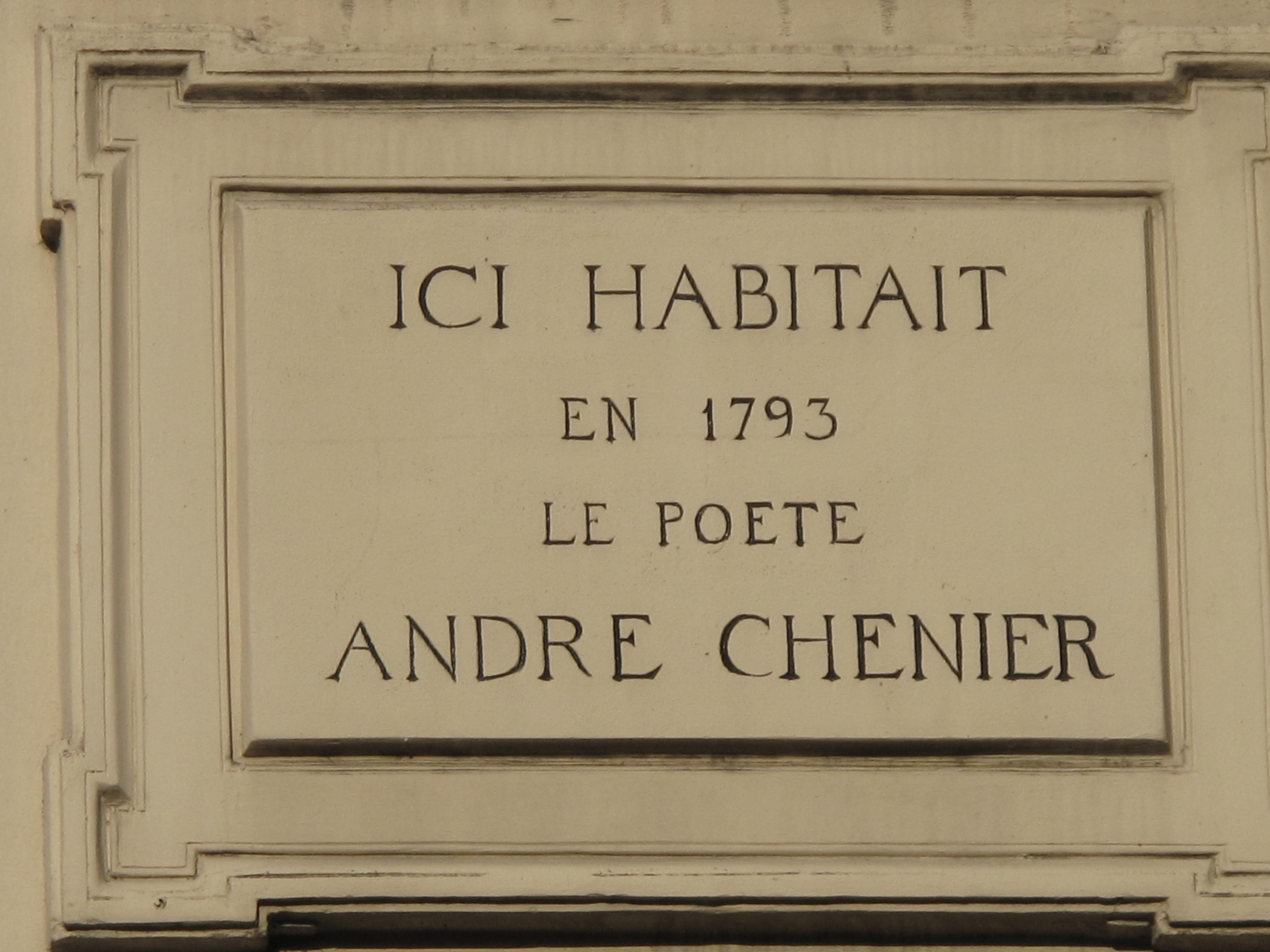 House where the French poet André Chénier lived during the French Revolution.